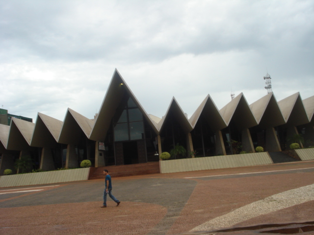 a